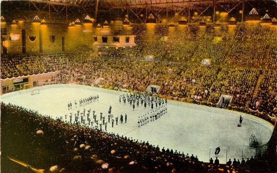 Postcard of the opening night ceremony of Maple Leaf Gardens (Toronto Maple Leafs vs. Chicago Black Hawks) in Toronto, Ontario, Canada. Postcard image is a reproduction of a photograph published in The Mail and Empire on November 11, 1931.